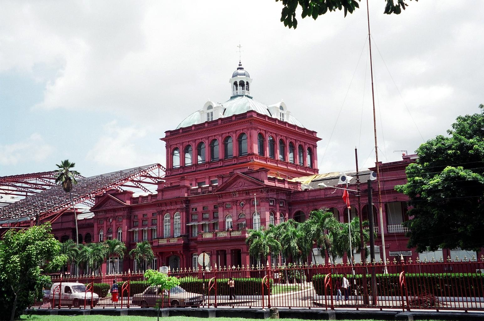 Author: Anthony Mendenhall, Redhouse, Port of Spain Trinidad